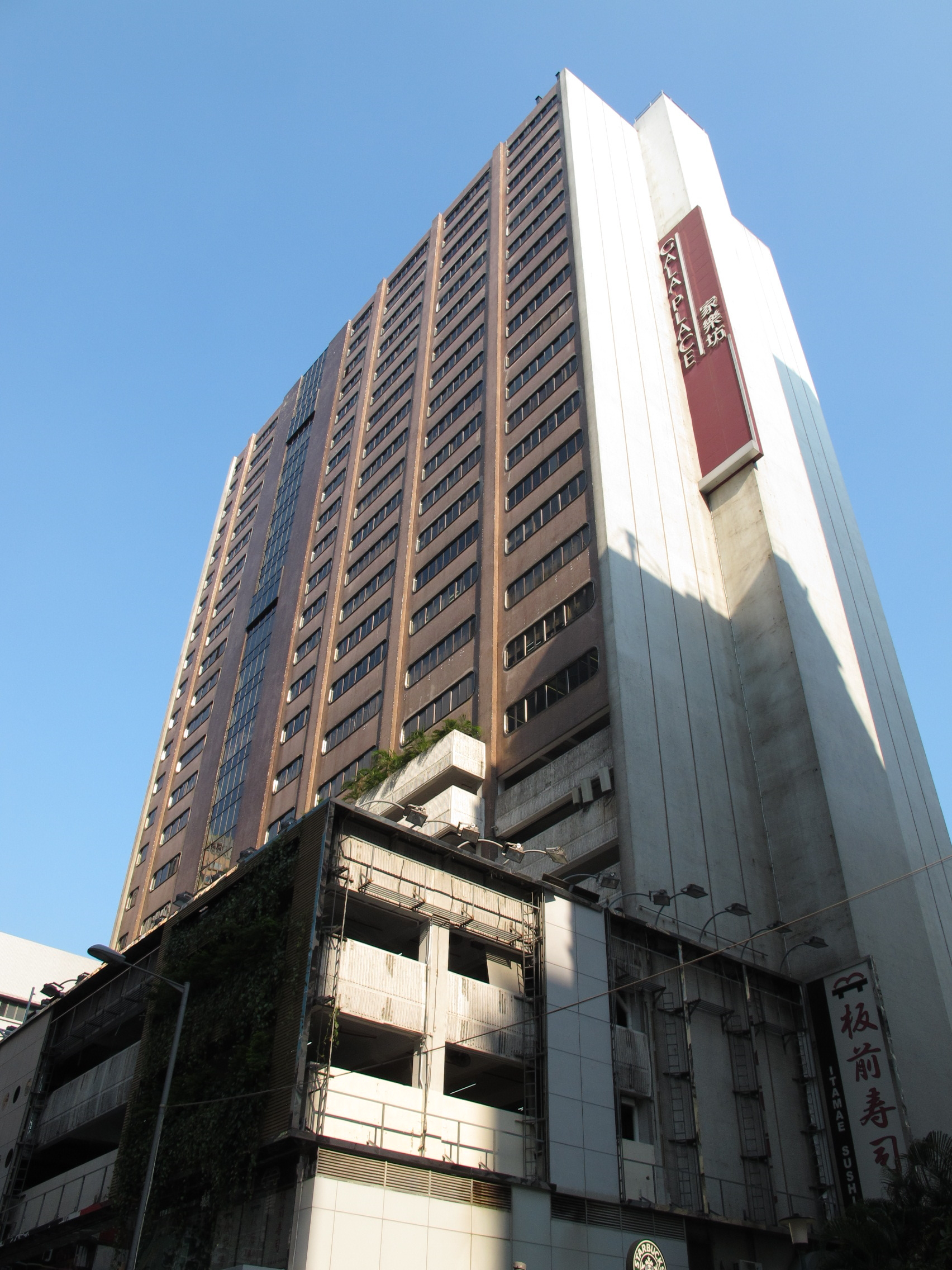 Park-in Commercial Centre